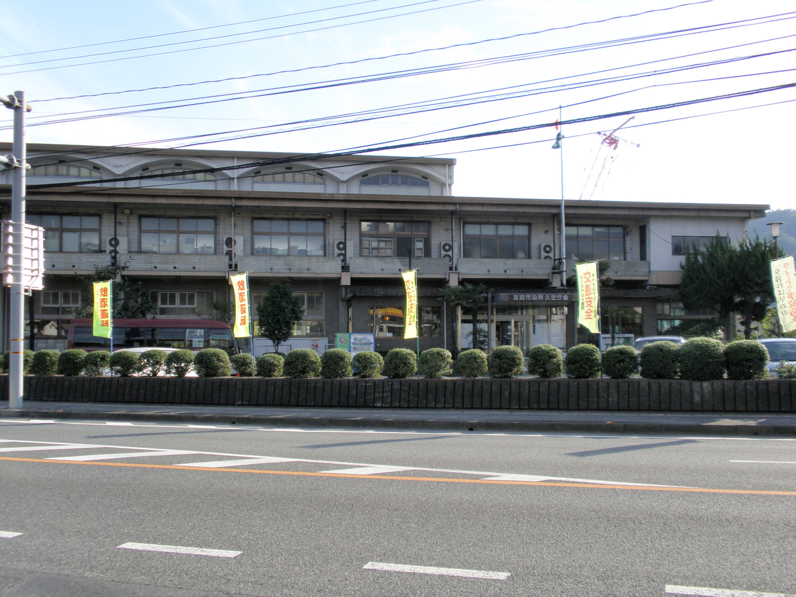 Former Kuse town office (1960.12 - 2005.3.30) Former Maniwa city office Kuse branch (2005.3.31 - 2010.9.20)